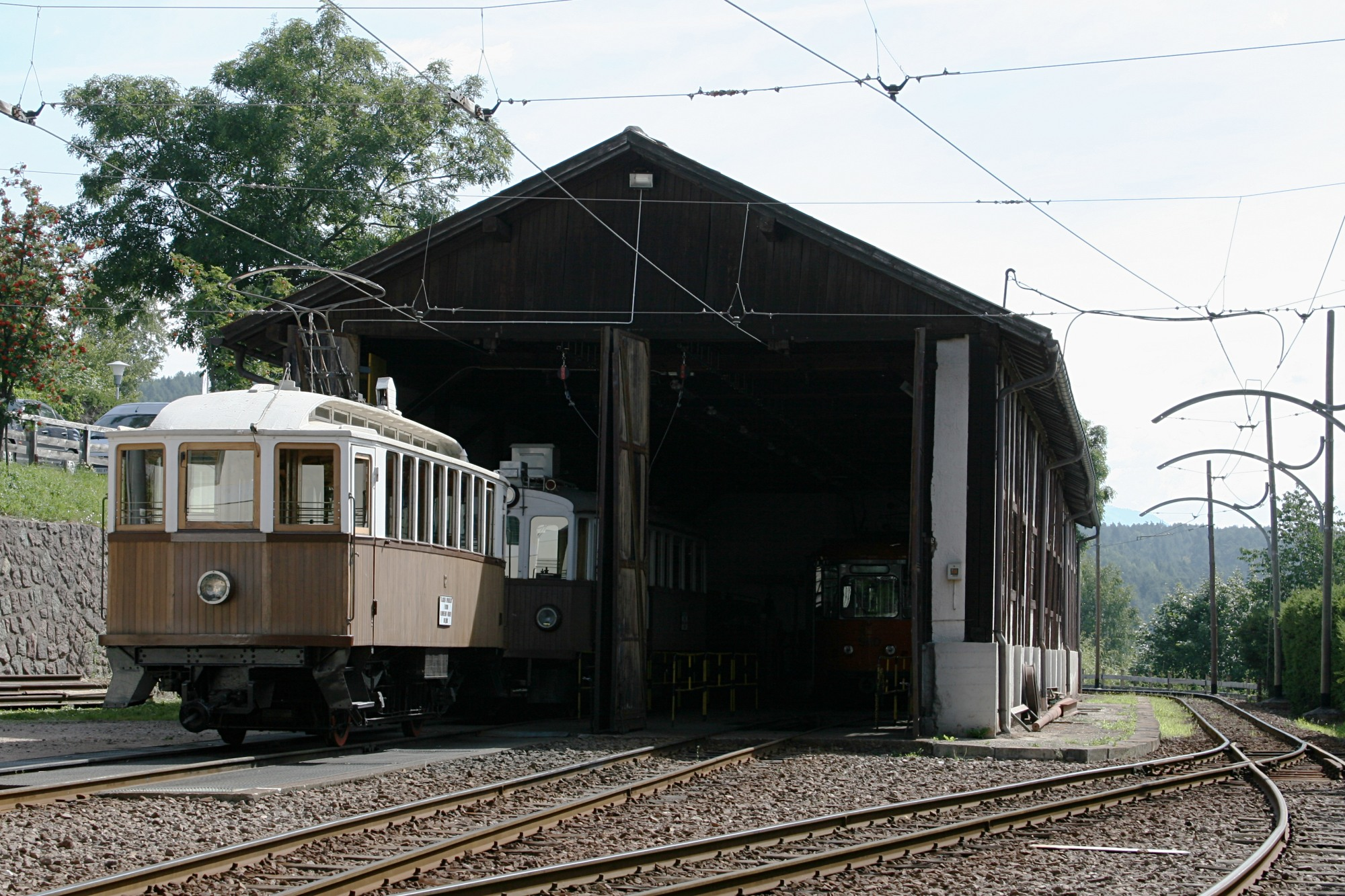 Rittnerbahn depot in Oberbozen.